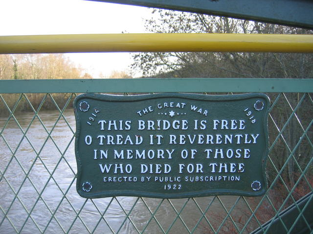 Plaque on Coalport Memorial Bridge. The plaque of dedication on the 292029.